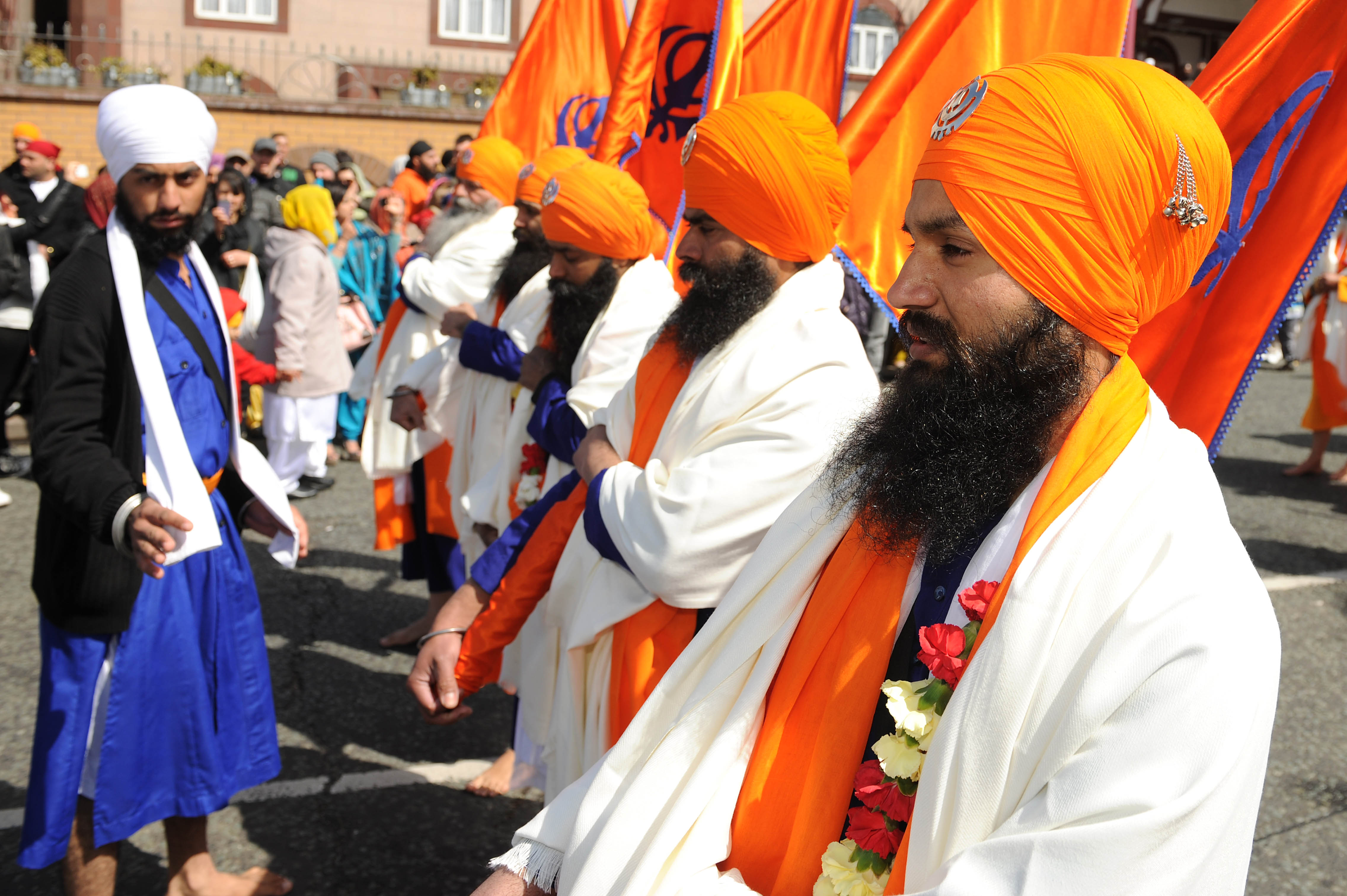 Sikhism, Baisakhi in United Kingdom